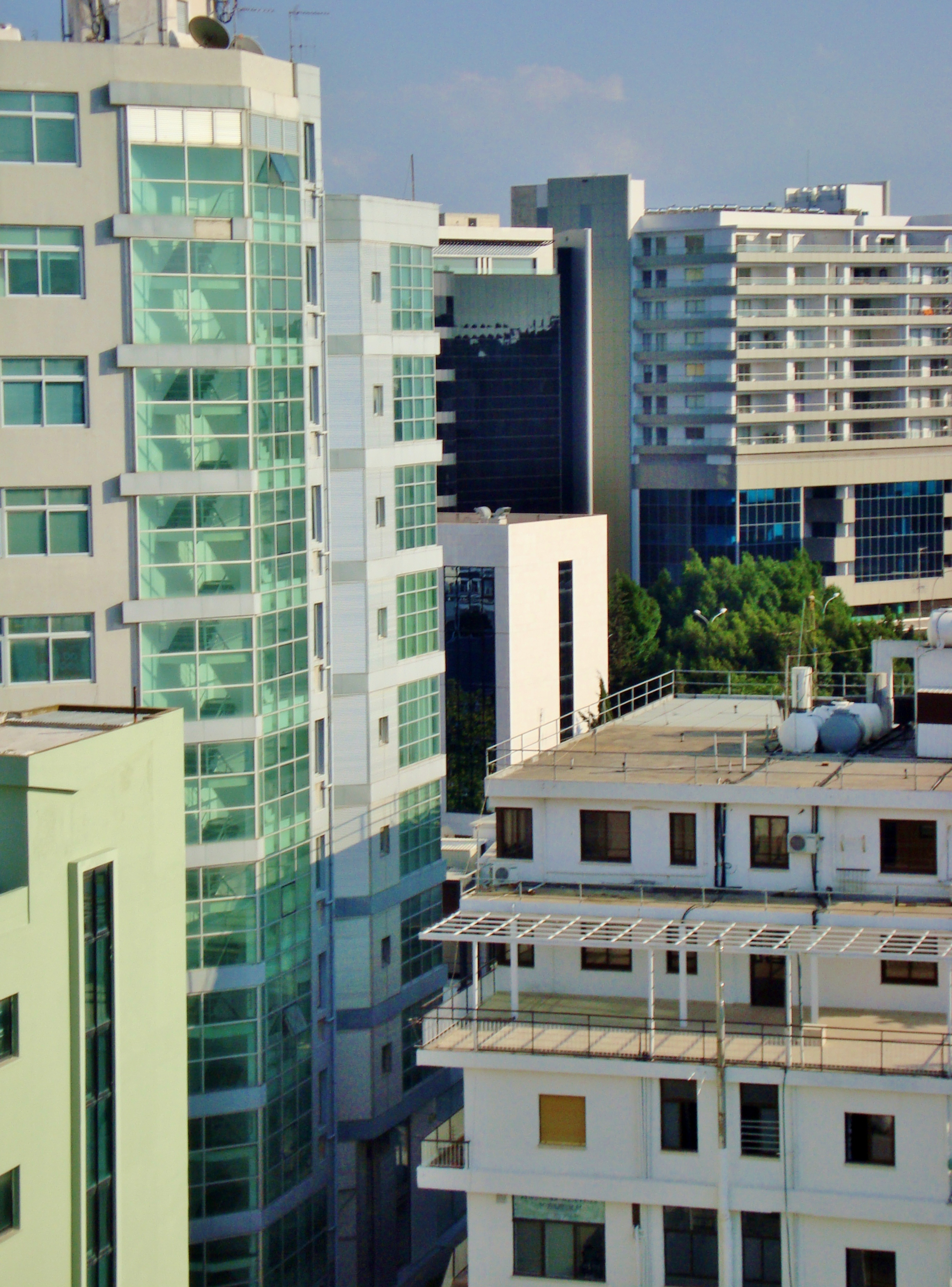 Skylines of Nicosia Cyprus